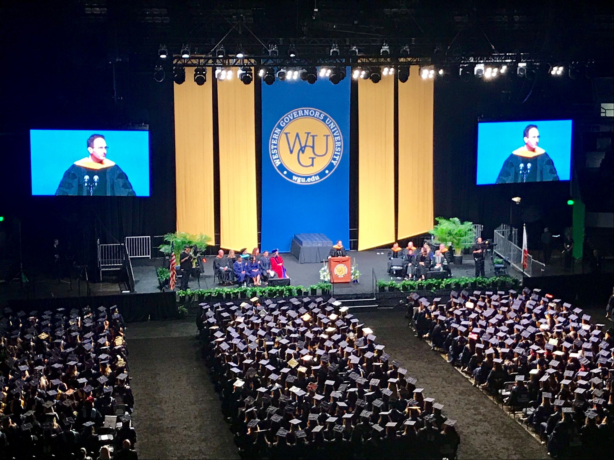 WGU Commencement Ceremony - Anaheim, CA - June 8, 2019